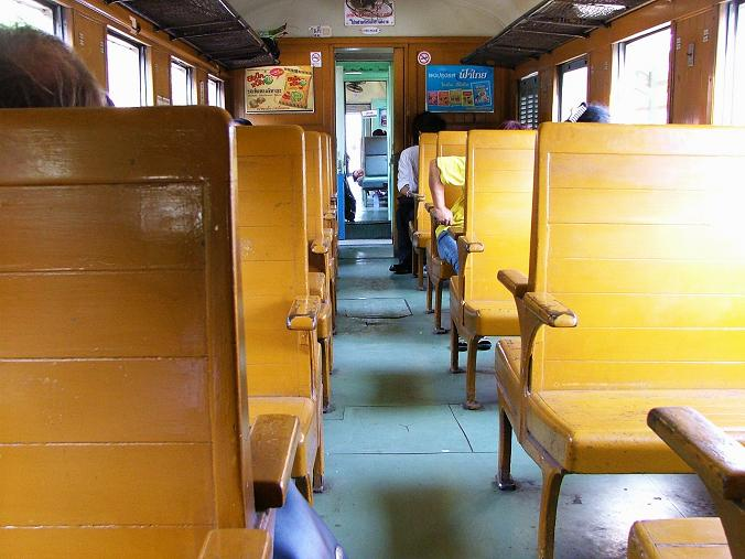 Thailand: rail-car 3.class.